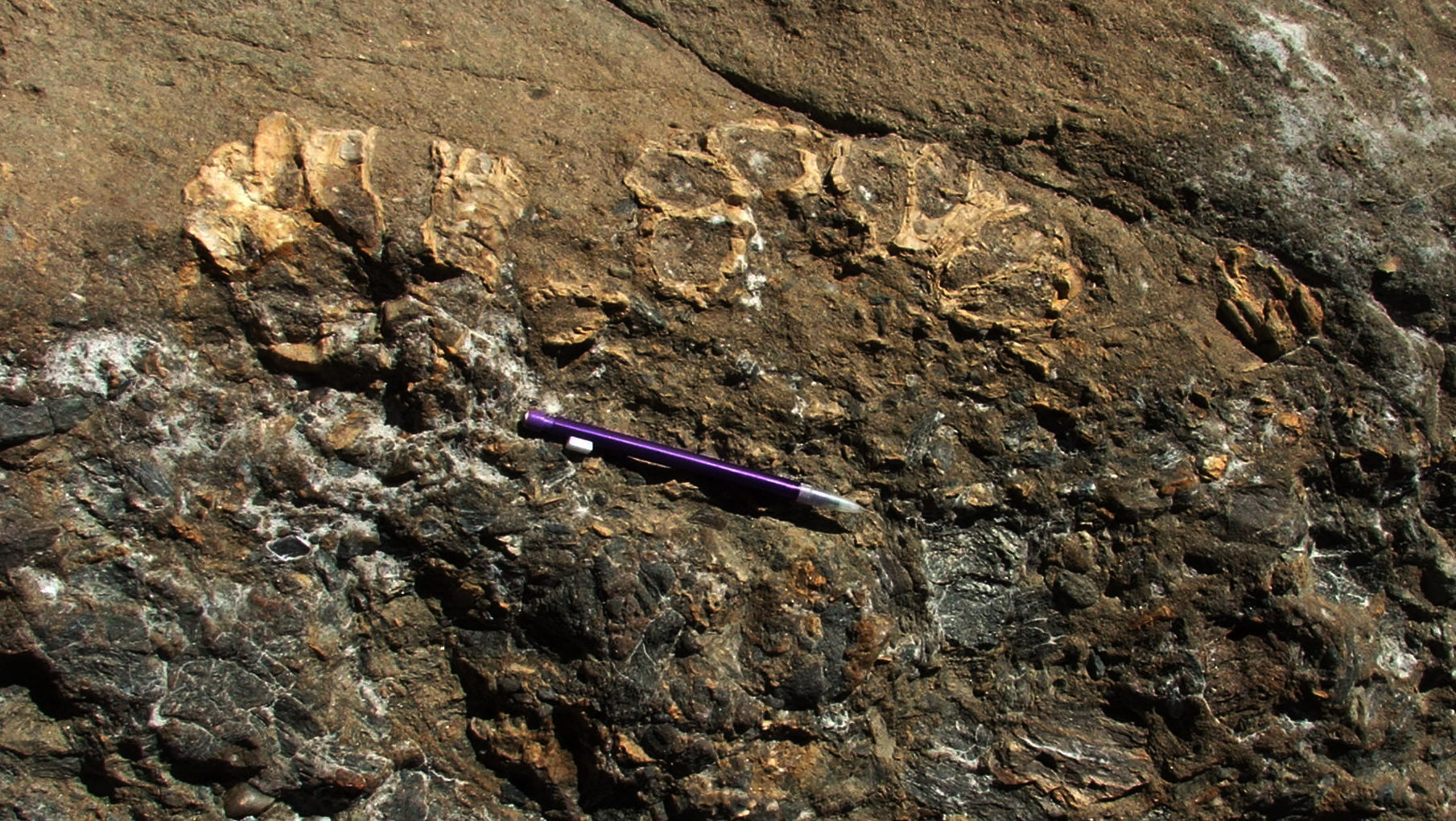 From the Tabernas basin of southern Spain. As studied by Doyle (1997).[1] ↑ Doyle, P.; Mather, A.E.; Bennett, M.R.; Bussell, A. (1997). "Miocene barnacle assemblages from southern Spain and their palaeoenvironmental significance". Lethaia 29: 267-274.